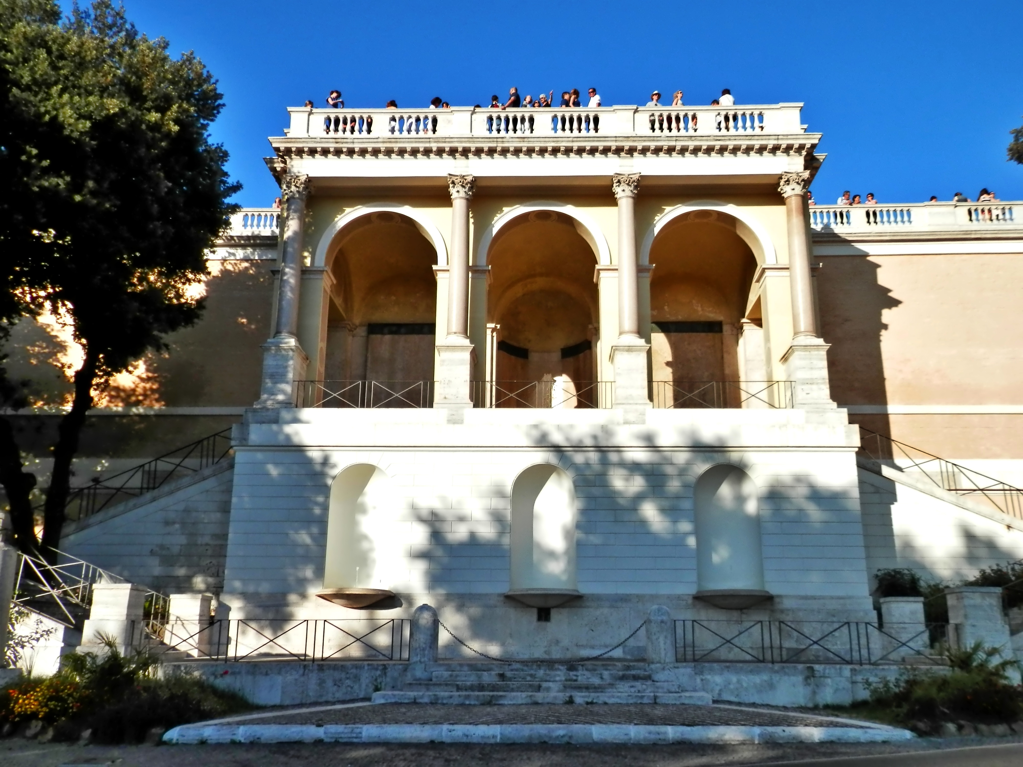 Terrace del Pincio next to the Piazza del Popolo, Rome